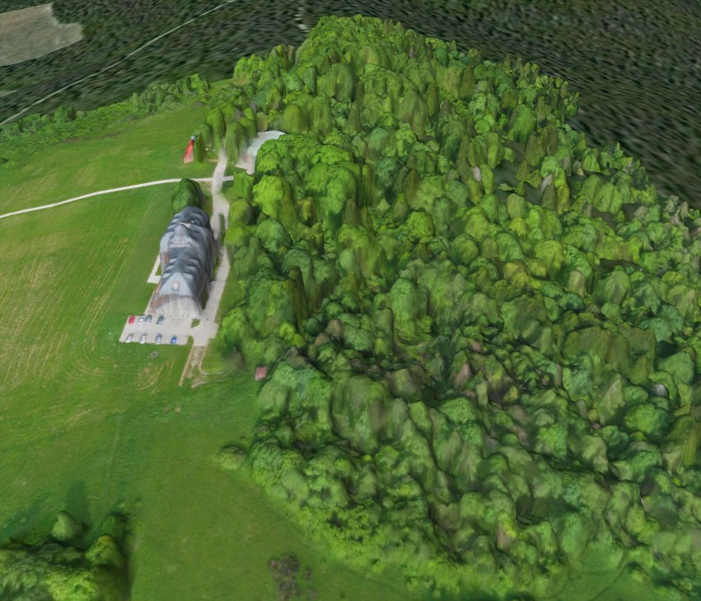 Bezmiechowa airfield 3D Digital Surface Model obtained after 1 day of pre-flight testing, 1hr of flight and 1 day of processing, using Pteryx UAV.